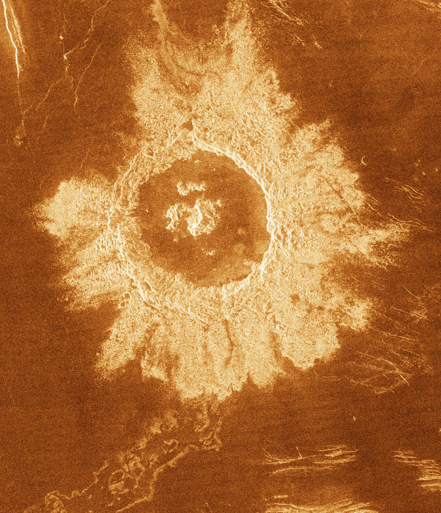 Danilova crater is an example of impact crater. This view seen by the NASA Magellan spacecraft.